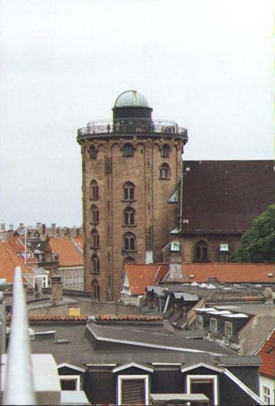 A view of Rundetårn over rooftops from Post & Tele Museum in Copenhagen, Denmark. Photographer: Dan Simon